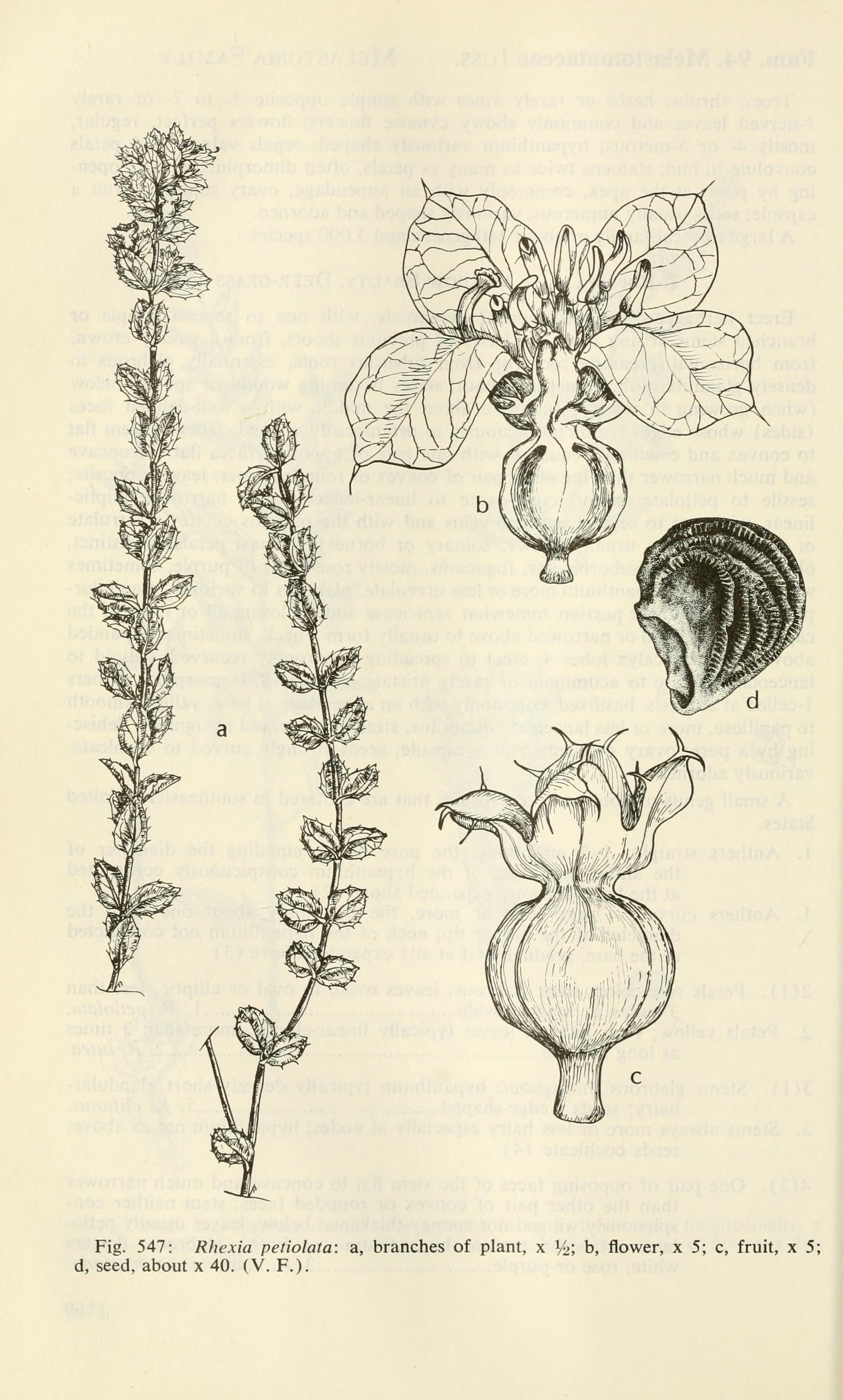 Title: Aquatic and wetland plants of southwestern United States Year: 1972 (1970s) Authors: Correll, Donovan Stewart, 1908-; Correll, Helen B Subjects: Aquatic plants -- Southwestern States; Wetland plants -- Southwestern States Publisher: [Washington Environmental Protection Agency; [For sale by the Supt. of Docs. , U. S. Govt. Print. Off. Text Appearing Before Image: ' Text Appearing After Image: Fig. 547: Rhexia petiolata: d, seed, about x 40. (V. F.). a, branches of plant, x i/V, b, flower, x 5; c, fruit, x 5